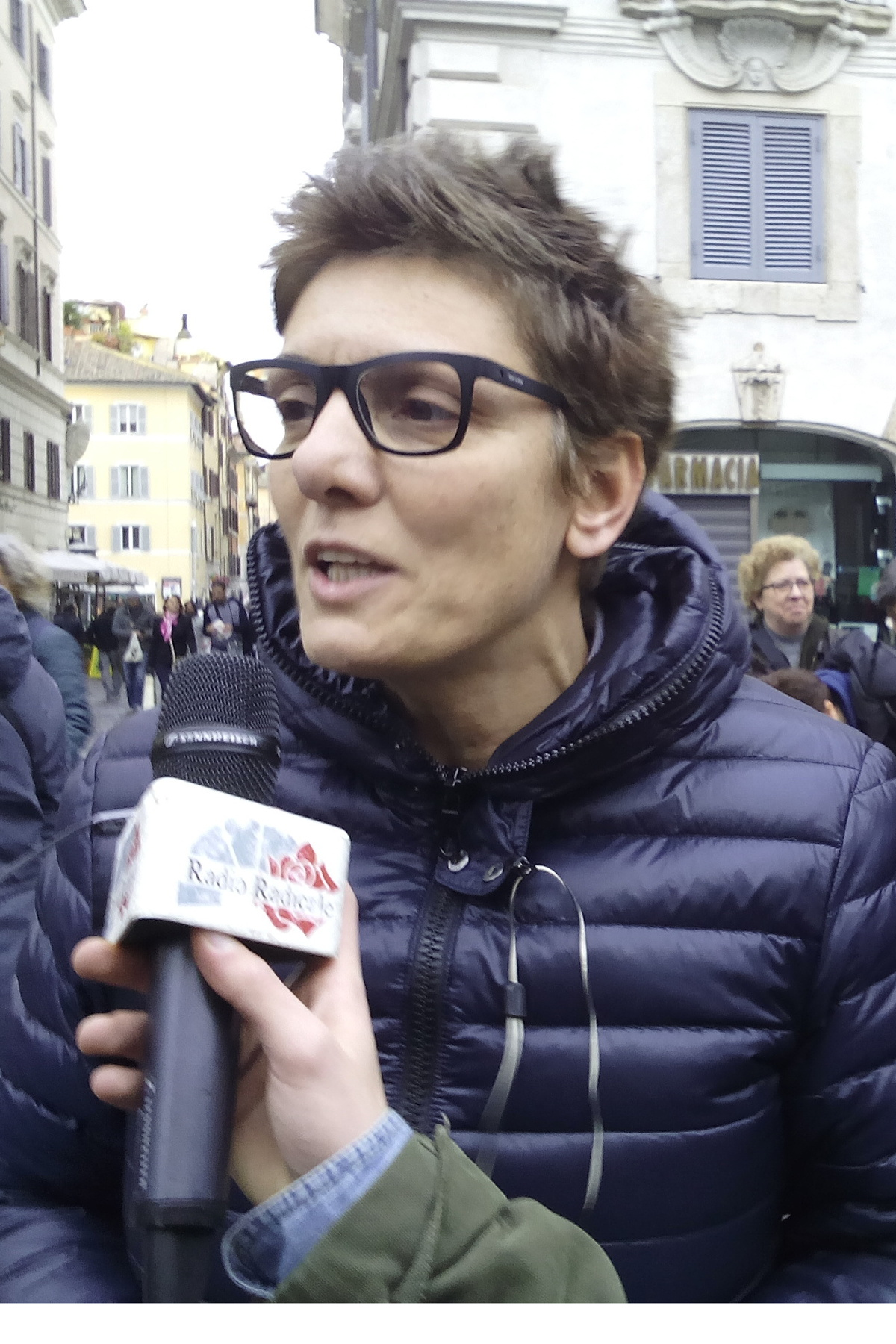 The Italian LGBT activist Imma Battaglia during the demonstration "Piazzata d'Amore" advocating for same-sex unions